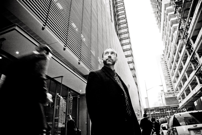 Copyright © 2008 Manuela Oprea